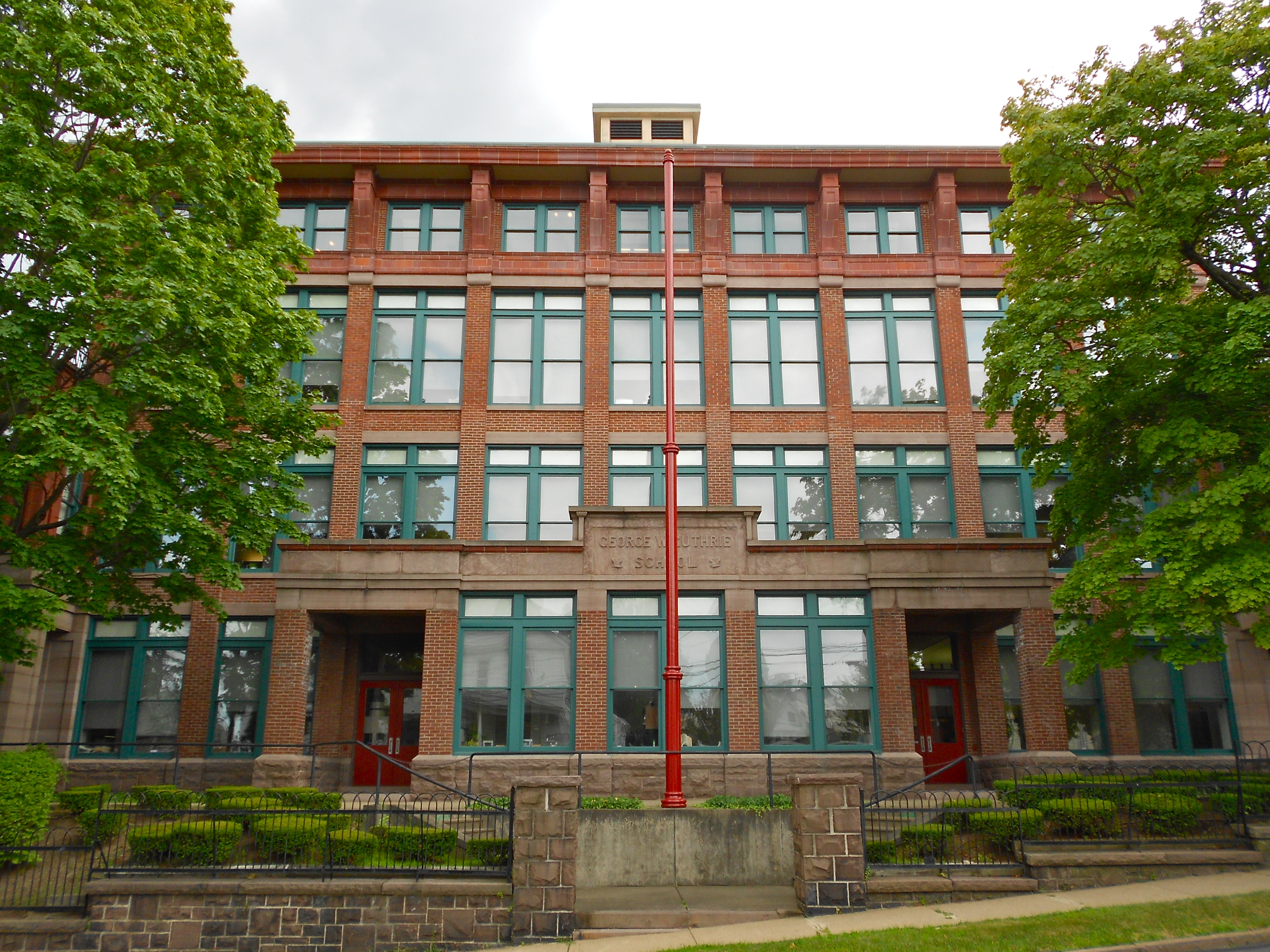 George W. Guthrie School, on the NRHP since June 27, 1980, at 643 North Washington Street, Wilkes-Barre, Luzerne County, Pennsylvania.